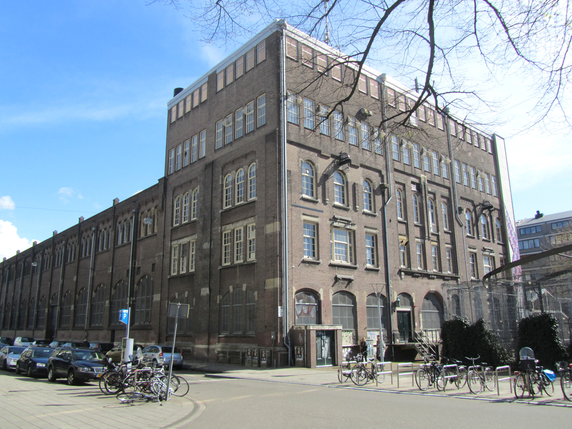 Former power station (1903/1908) at Hoogte Kadijk 400 in Amsterdam